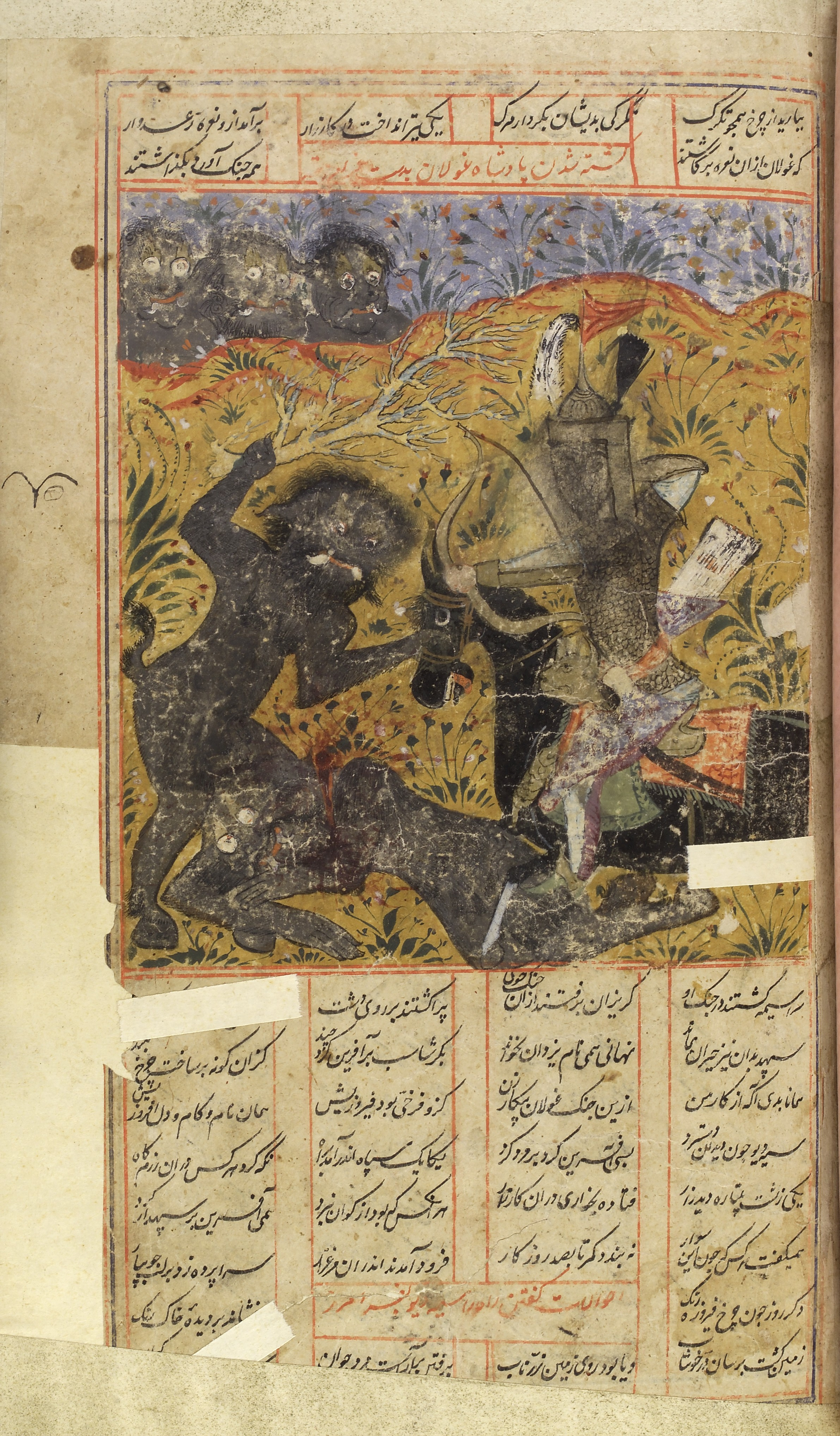 Faramarz kills the shah of demons (ghuls), from the Shah Nameh, 10th century Persian epic of the Kings Asian Collection Keywords: Iran; Abu al-Qasim Firdawsi of Tus; Iranian; Fighting; Persian; Battles; Hero; Ferdowsi